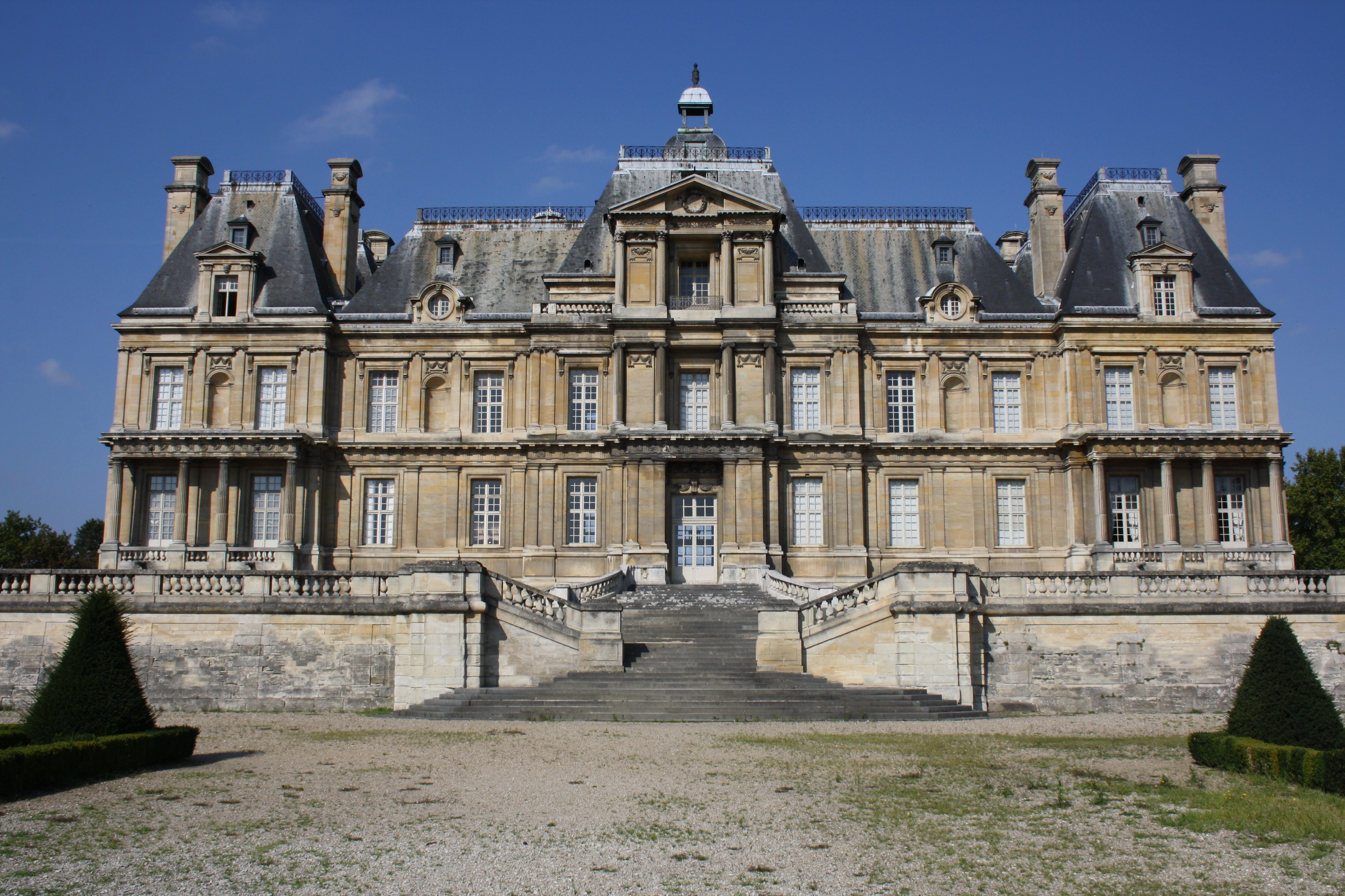 Maisons castle in Maisons-Laffitte, France.